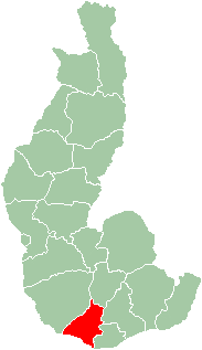 Location map of Beloha region in Toliara province.